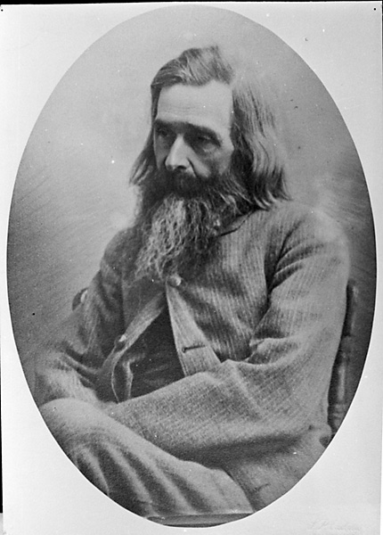 Thomas King, Member of Parliament for Grey and Bell in the 1850s/60s.